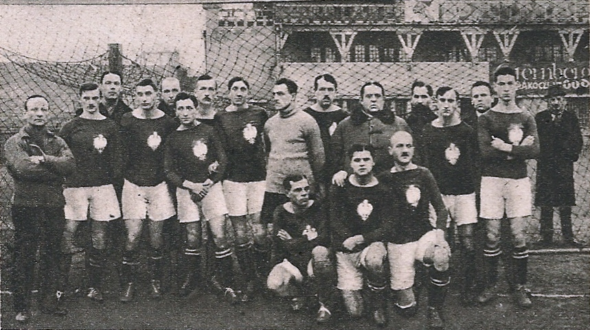 Polish football national team before their first official match - against Hungary (18th December 1921 in Budapest)